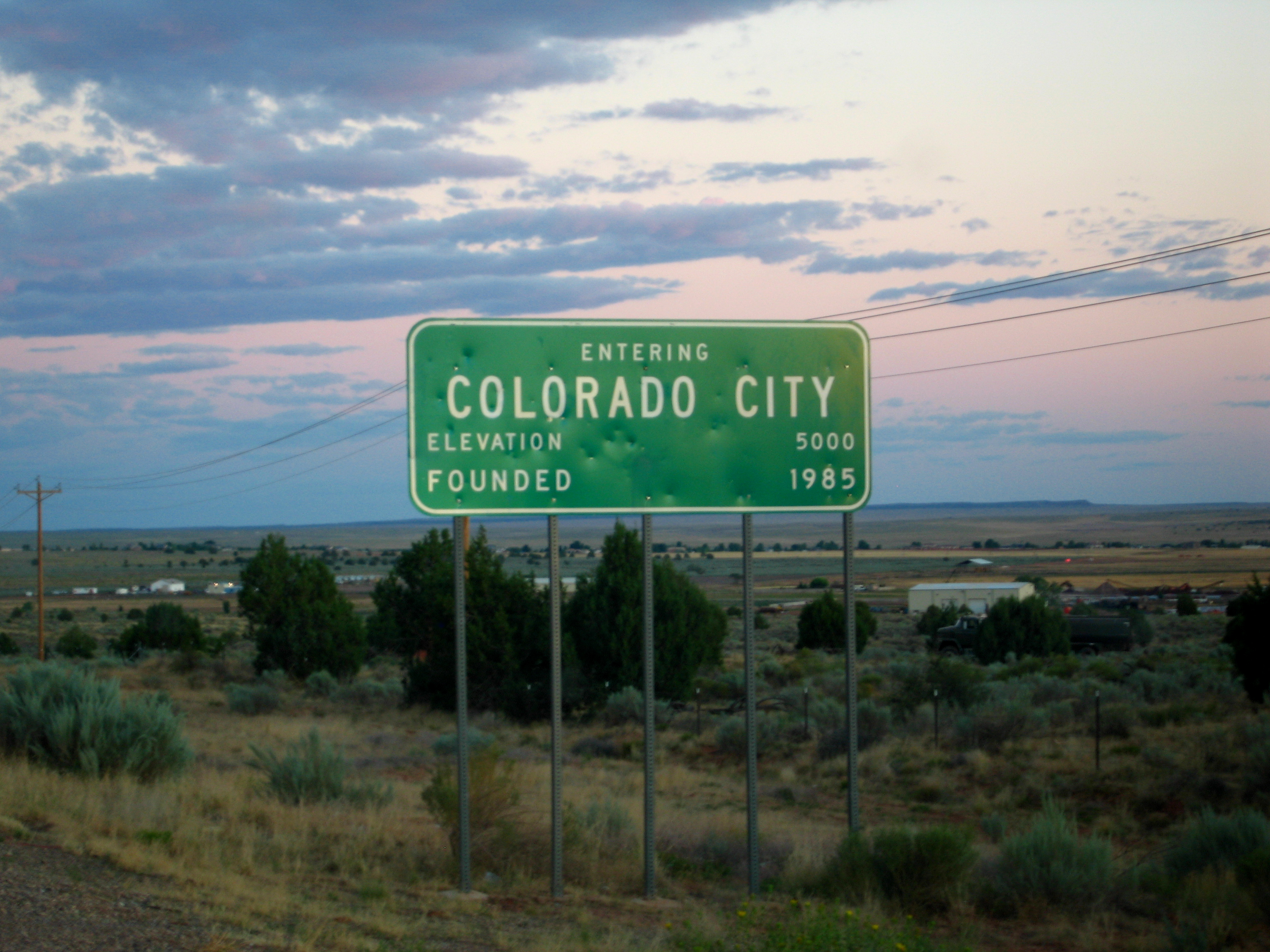 Colorado City, Arizona (same as Hildale, Utah) United States Photo by Ricardo630 Ricardo630 03:44, 9 August 2006 (UTC)